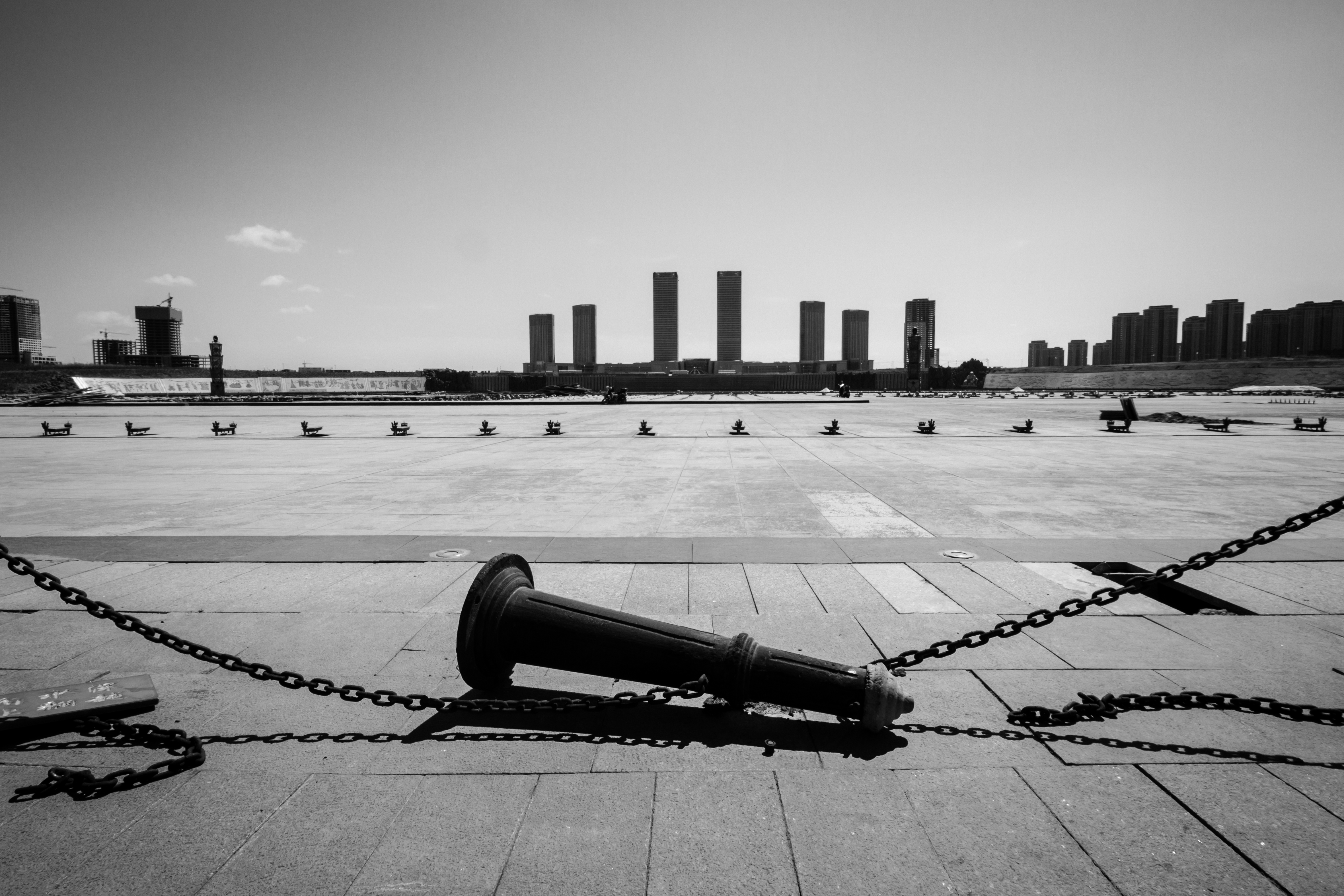 Kangbashi, a subdivision of the Chinese city of Ordos, Inner Mongolia: a city newly built in the middle of no where is a ghost city which can accommodate up to a million people is completely empty with empty shopping malls, roads, parks, etc.